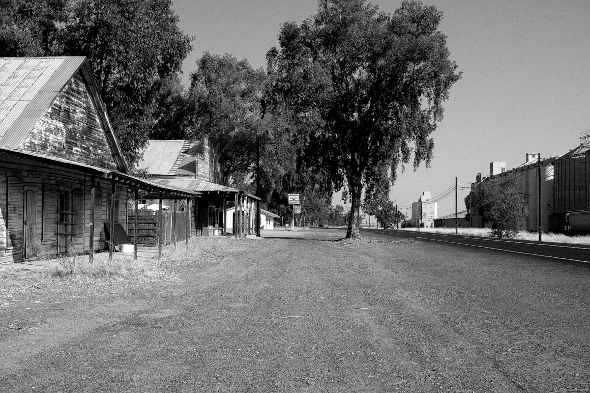 Artois, California, along the former U.S. Route 99W.